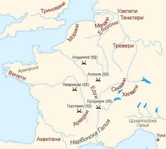 Celtic and germanic tribes in Gaul (58-50 BC) References: Caesar in Brill’s New Pauly: Encyclopaedia of the Ancient World Goldsworthy A.: Caesar, Yale University Press, 2006, p. 198